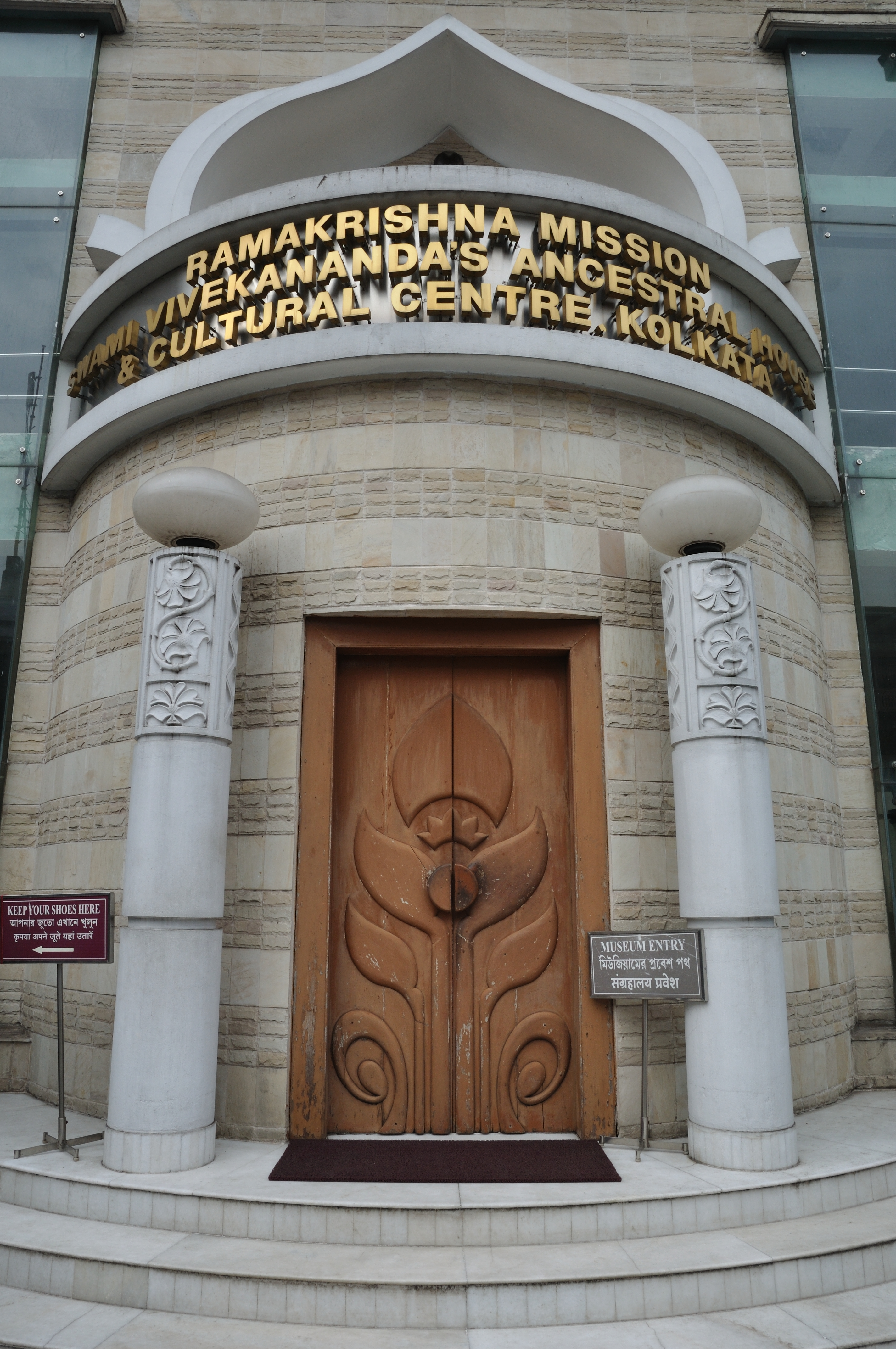 Main entrance door of the Swami Vivekananda's Ancestral House & Cultural Centre, 3 Gour Mohan Mukherjee street, in North Kolkata, is a museum and cultural centre that acquired, renovated, newly constructed and maintained by the Ramakrishna Mission, where Narendranath Dutta (Swami Vivekananda) born and spend his childhood and pre-monastic life.